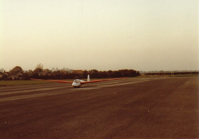 North End of Runway, Rufforth Airfield, N. Yorks.